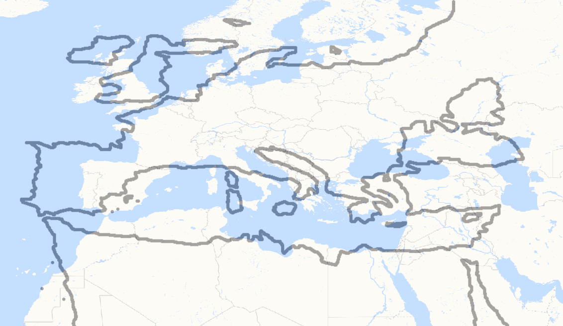 Ptolemy's map of the Mediterranean superimposed on a modern map. File:Bunbury Vol 2 Map 08 Ptolemy p 578.jpg was transformed to a rectangular projection in QGIS. The outline was traced, and then superimposed on a modern map on the same projection. The meridian of Greenwich was used as a reference for the alignment